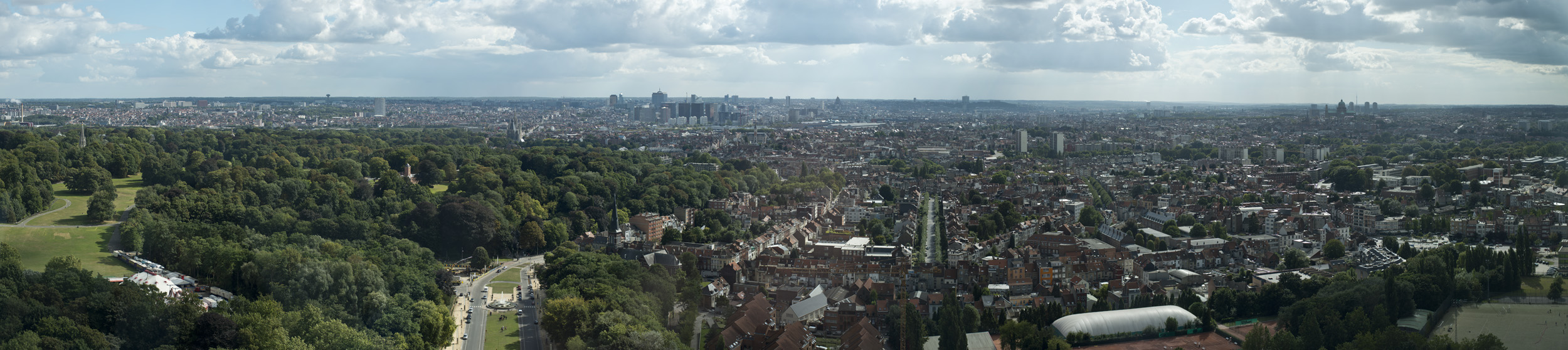 From the top of the Atomium